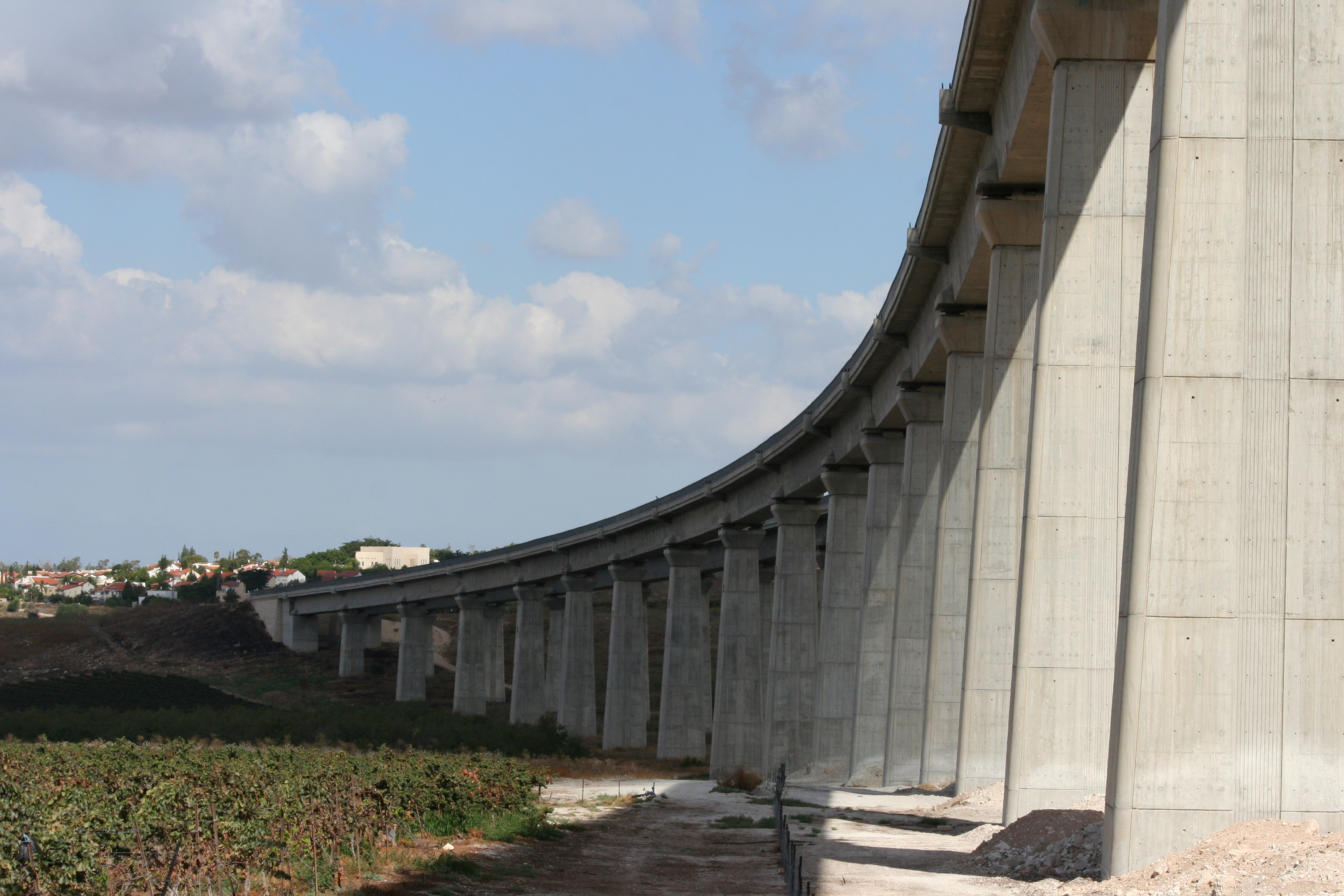 Kibbutz Sha'alvim and the train bridge over Ayalon Valley